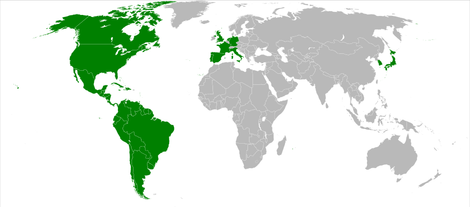 ECLAC memberstates, january 2009